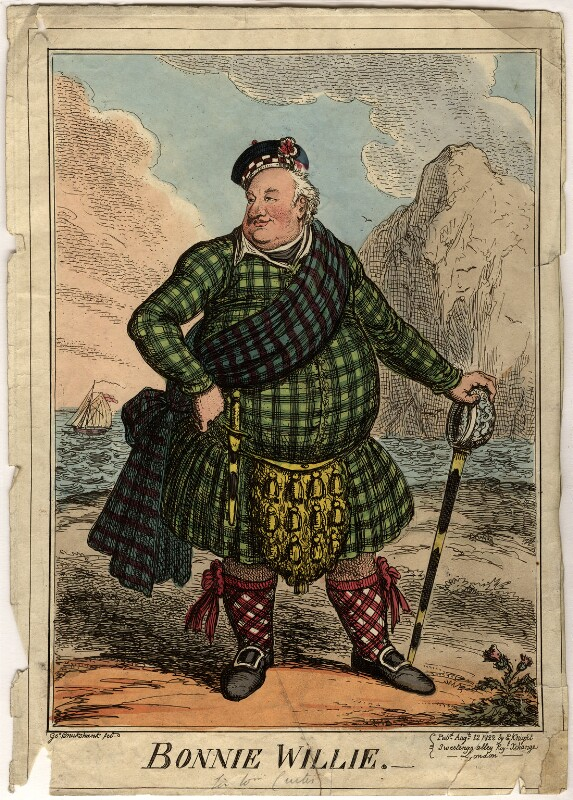 Sir William Curtis, 1st Bt by George Cruikshank, published by Edward Knight hand-coloured etching, published 12 August 1822 NPG D2242